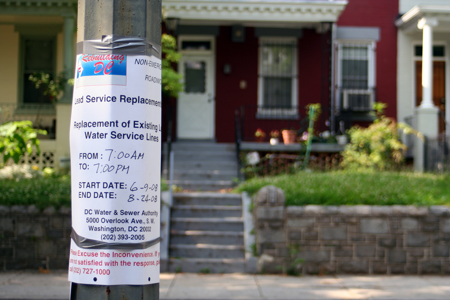 A DC Water Lead Service Replacement notice duct-taped to a street lamp post on Irving Street NW, Washington, D.C.